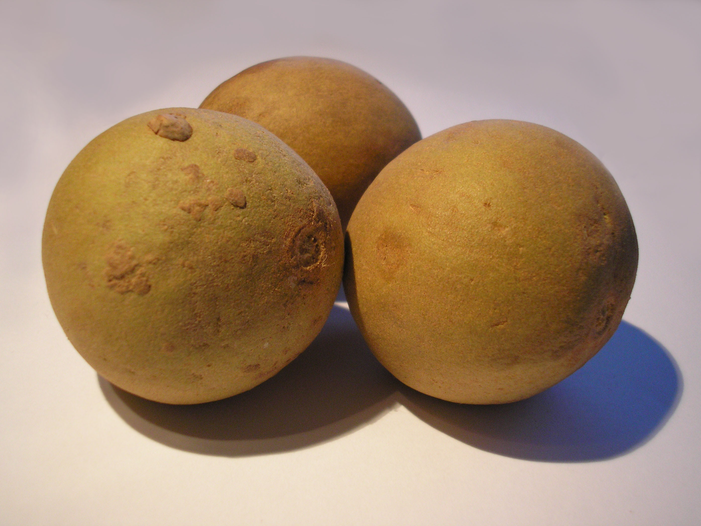 The fruit name is called sapota in tamil language and chikoo in hindi language.It’s a seasonal fruit.